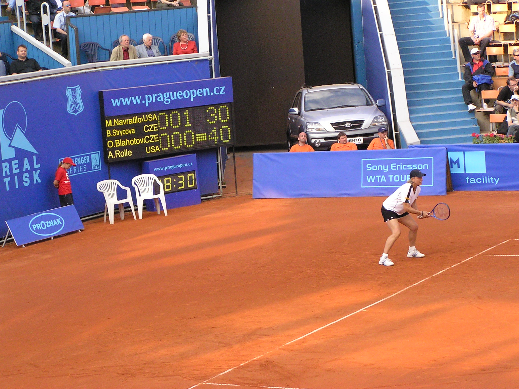 Martina Navrátilová ! Photo taken from ECM Prague Open 2006 ( - Prague, May 2006.